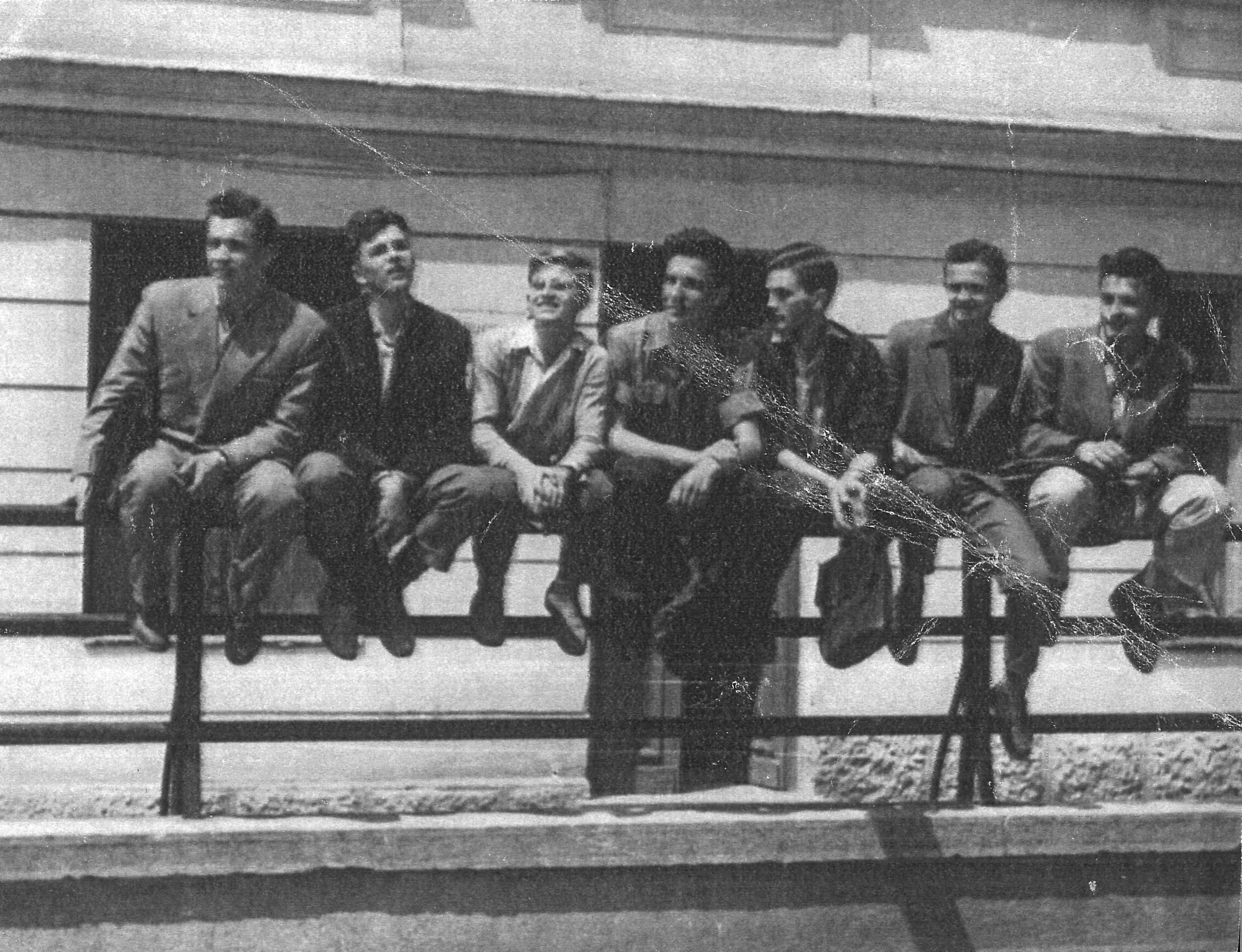 Gojko Varda (first from left side) with his colleagues, students from the Faculty of Applied Arts in Belgrade, between 1955 and 1960